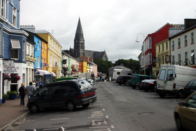 Main Street, Clifden, County Galway, Ireland